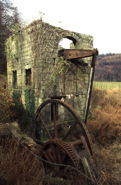 Glyn Pits, Pontypool. Disused Colliery with 1845 beam pumping engine. There is a vertical winding engine nearby. There has been consolidation recently and there is a temporary roof and supporting framework to this building.